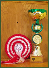 BOB cockade and European Youth Winner 2005 plate.